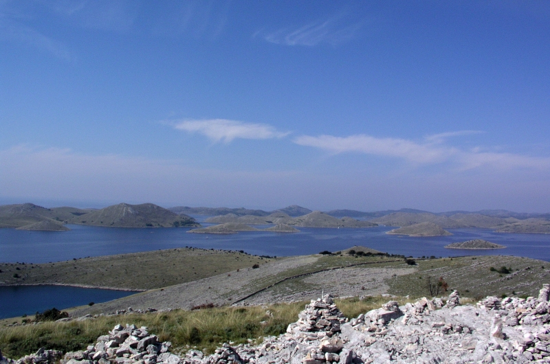 Žut, Kornati, Croatia